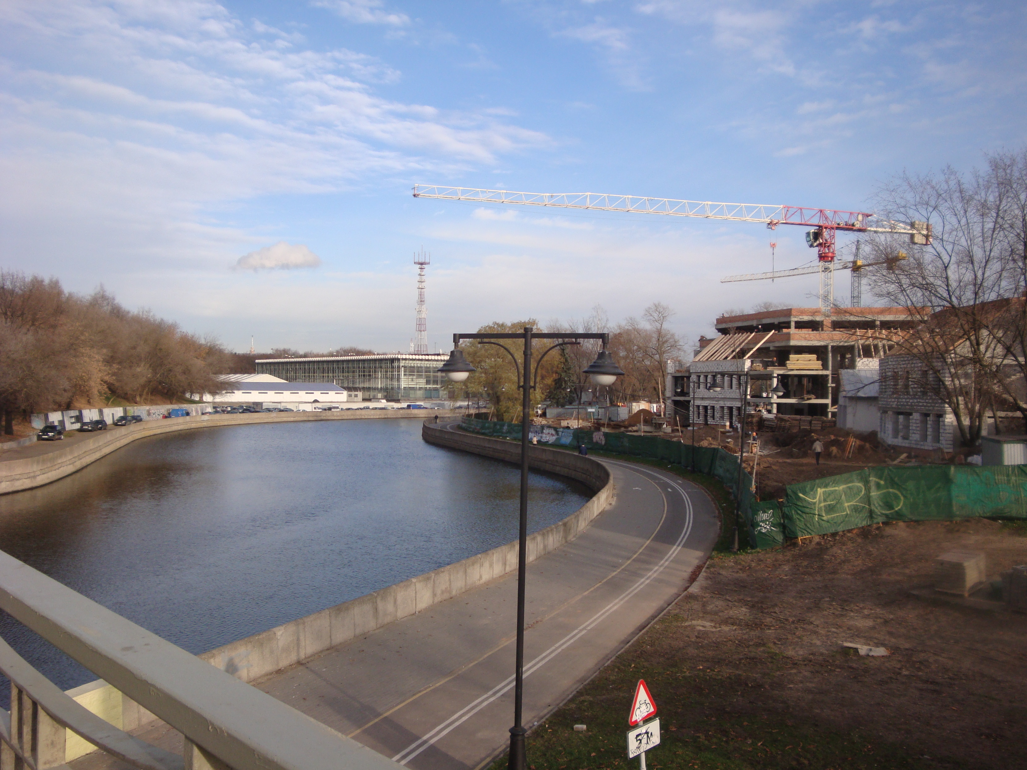 Svisloch river in the center of Minsk city near Zybitskaya street, 2013 AD